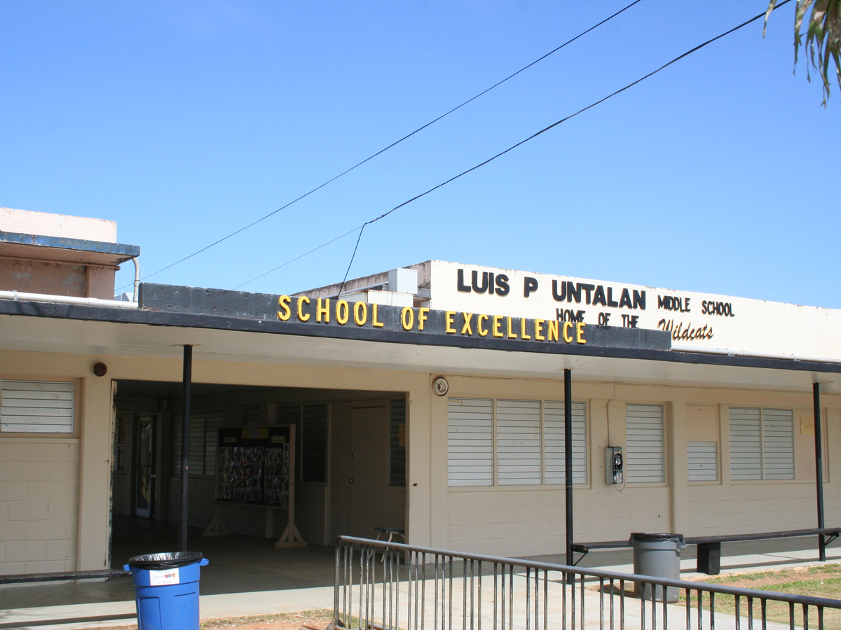 Untalan Middle School was originally established as Barrigada Junior High School in 1958. The school was renamed in honor of Untalan in 1982. - Sheila Tyquiengco